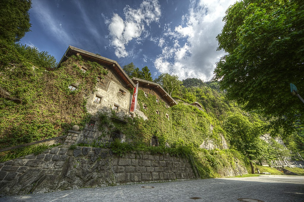 Rattenberg